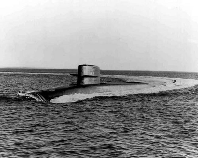 United States Navy fleet ballistic missile submarine commencing a hard turn to starboard, possibly during her sea trials off the United States East Coast.